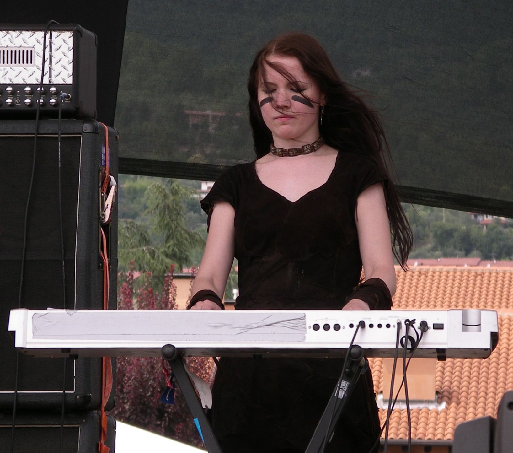 Meiju Enho from Ensiferum during the Evolution Festival in 2006.